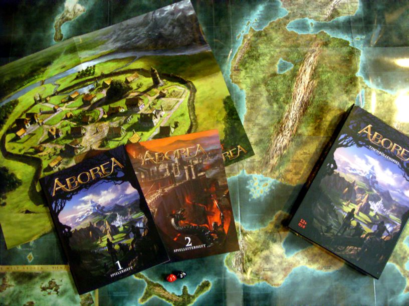 Aborea RPG (box & contents)